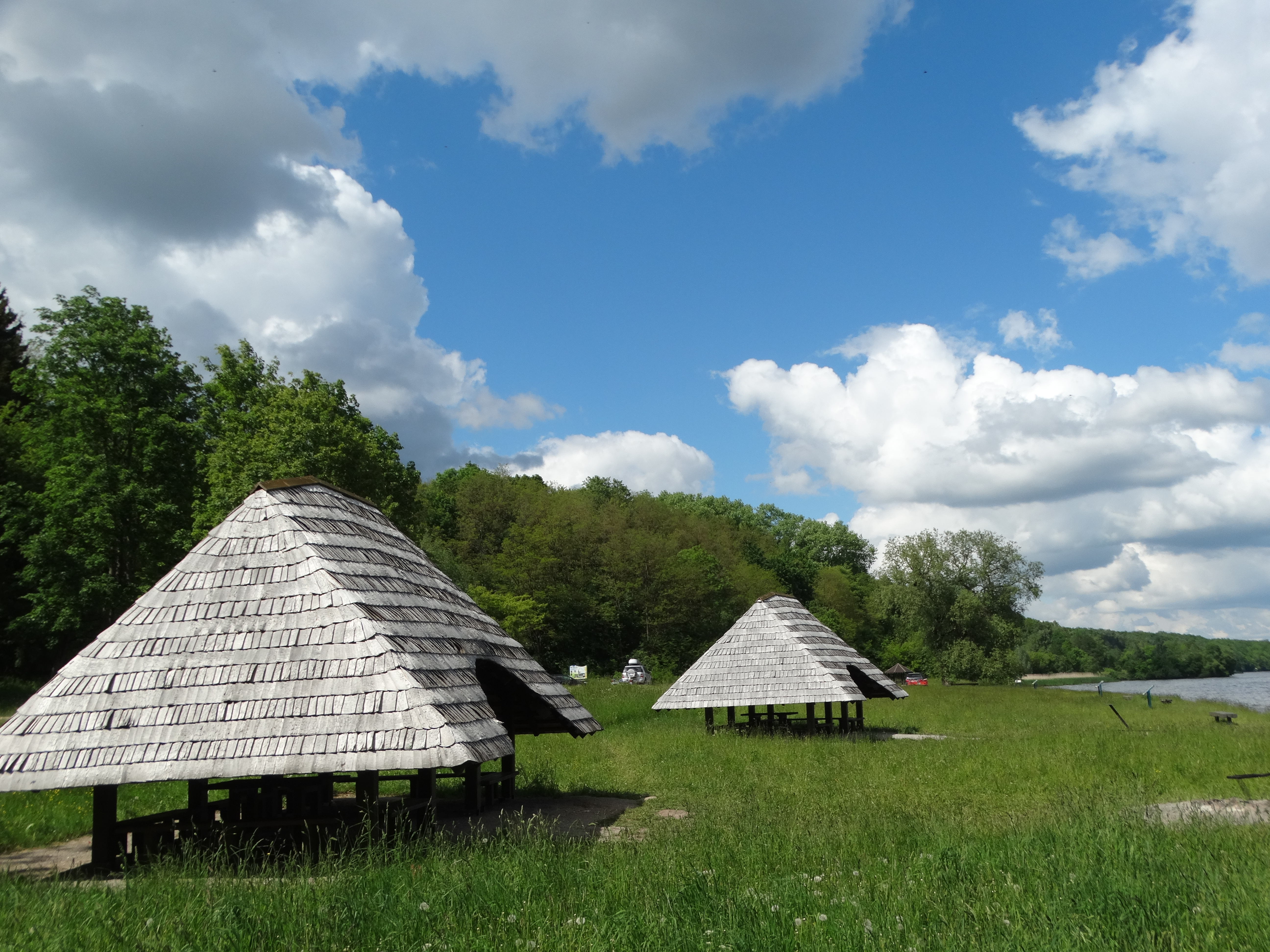 Samylai, Kaunas district, Lithuania